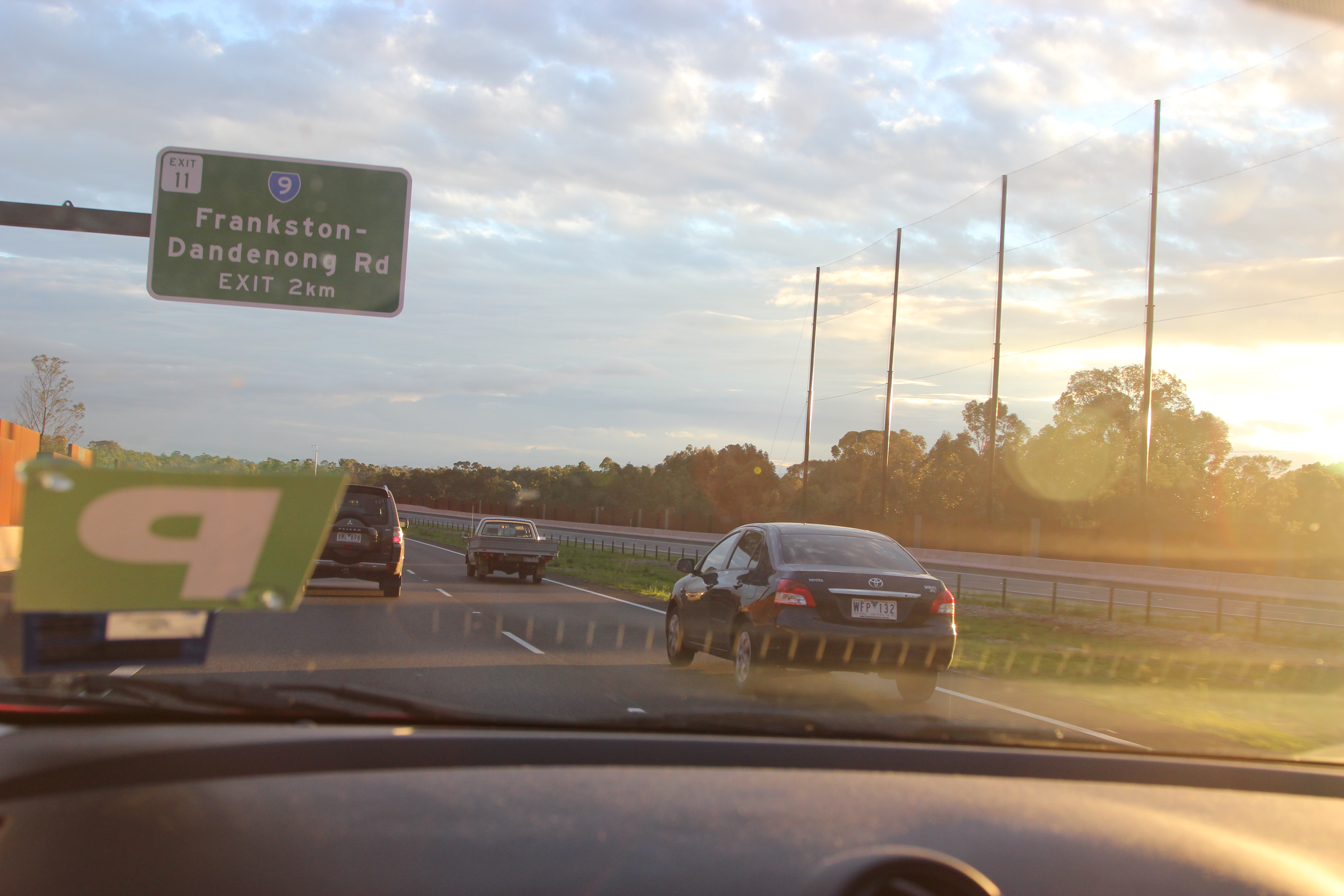 Driving northbound on Peninsula Link before the Frankston-Dandenong Rd Exit